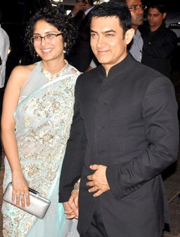 Aamir Khan with his wife Kiran Rao at Karan Johar's 40th birthday bash at Taj Lands End